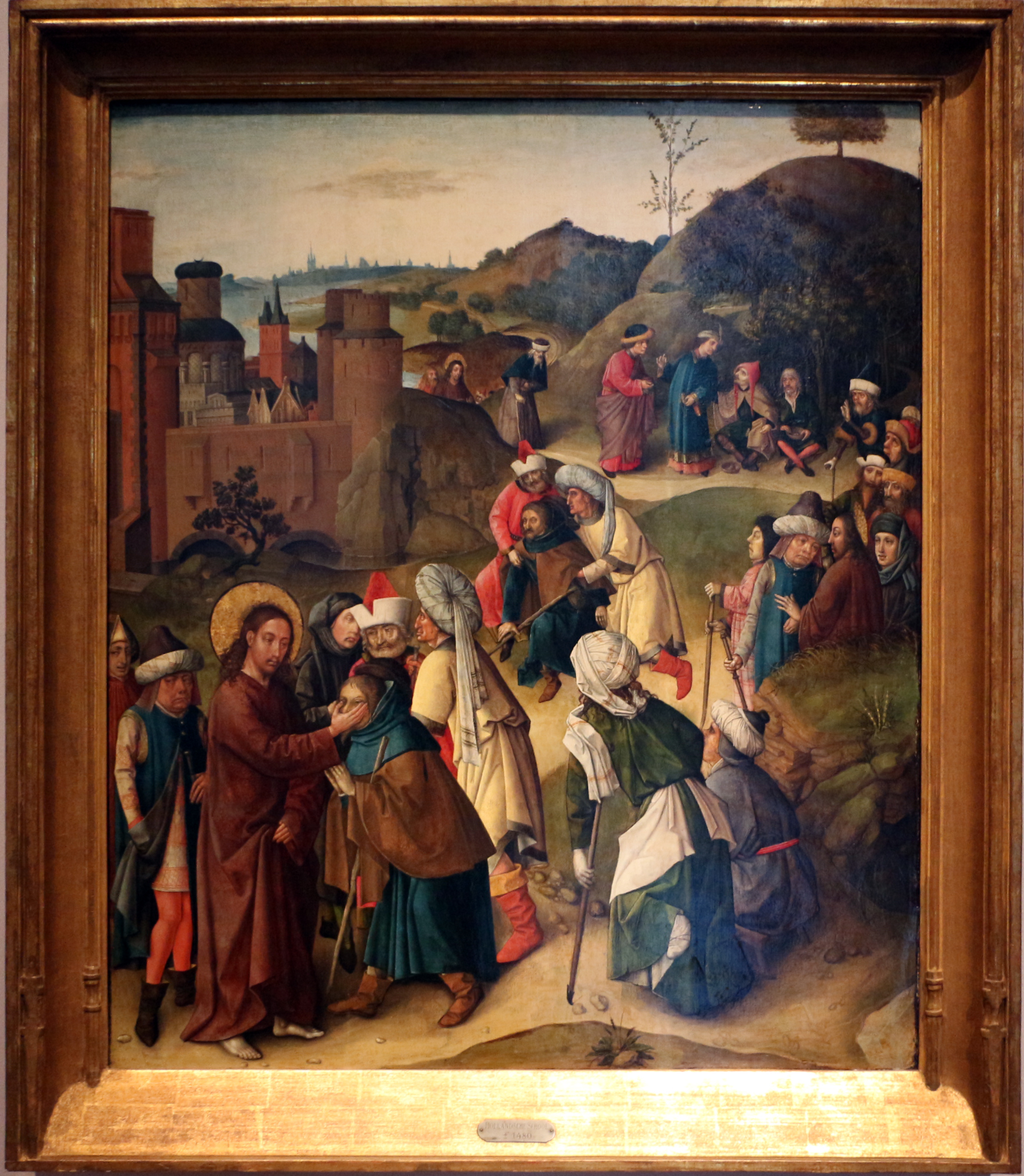 Paintings in the Museum Catharijneconvent